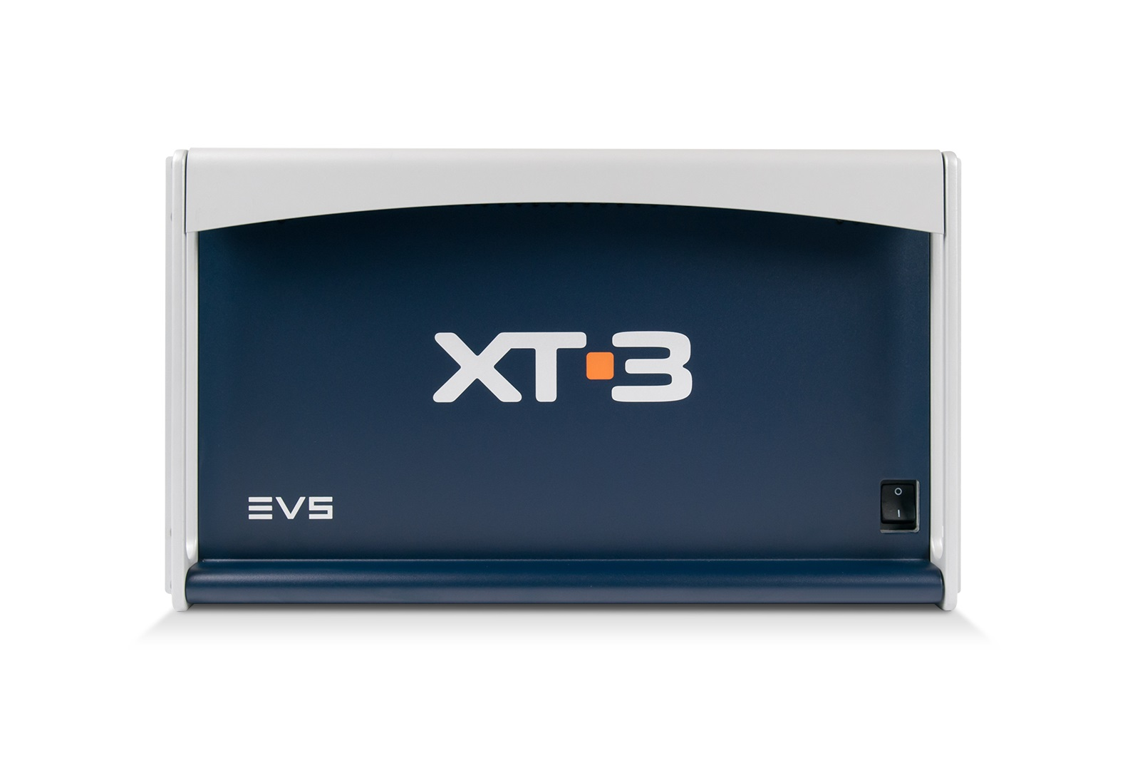 The XT3 server from EVS Broadcast Equipment company